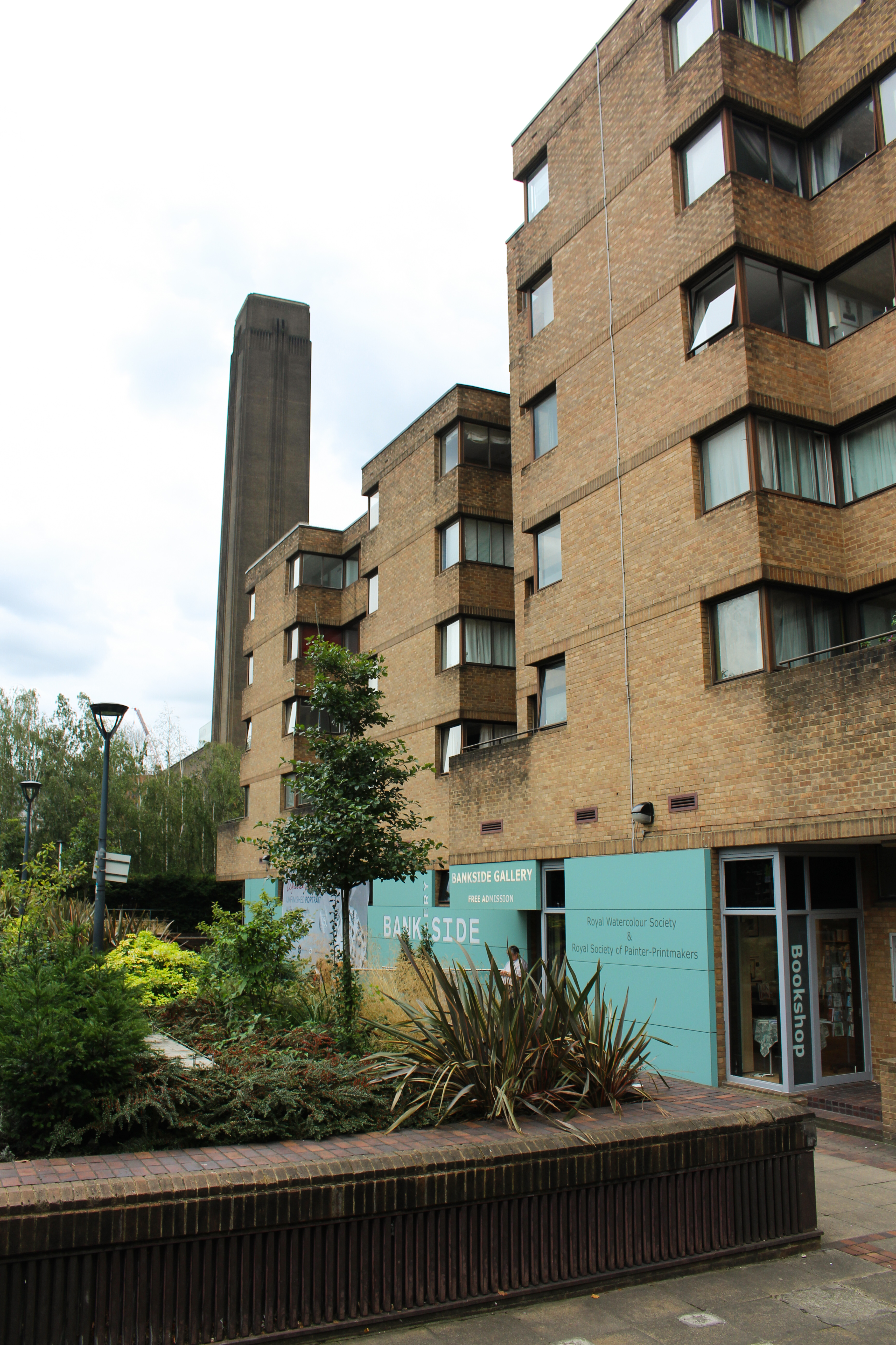 The Bankside Gallery, London, home to the Royal Watercolour Society and the Royal Society of Painter Printmakers.